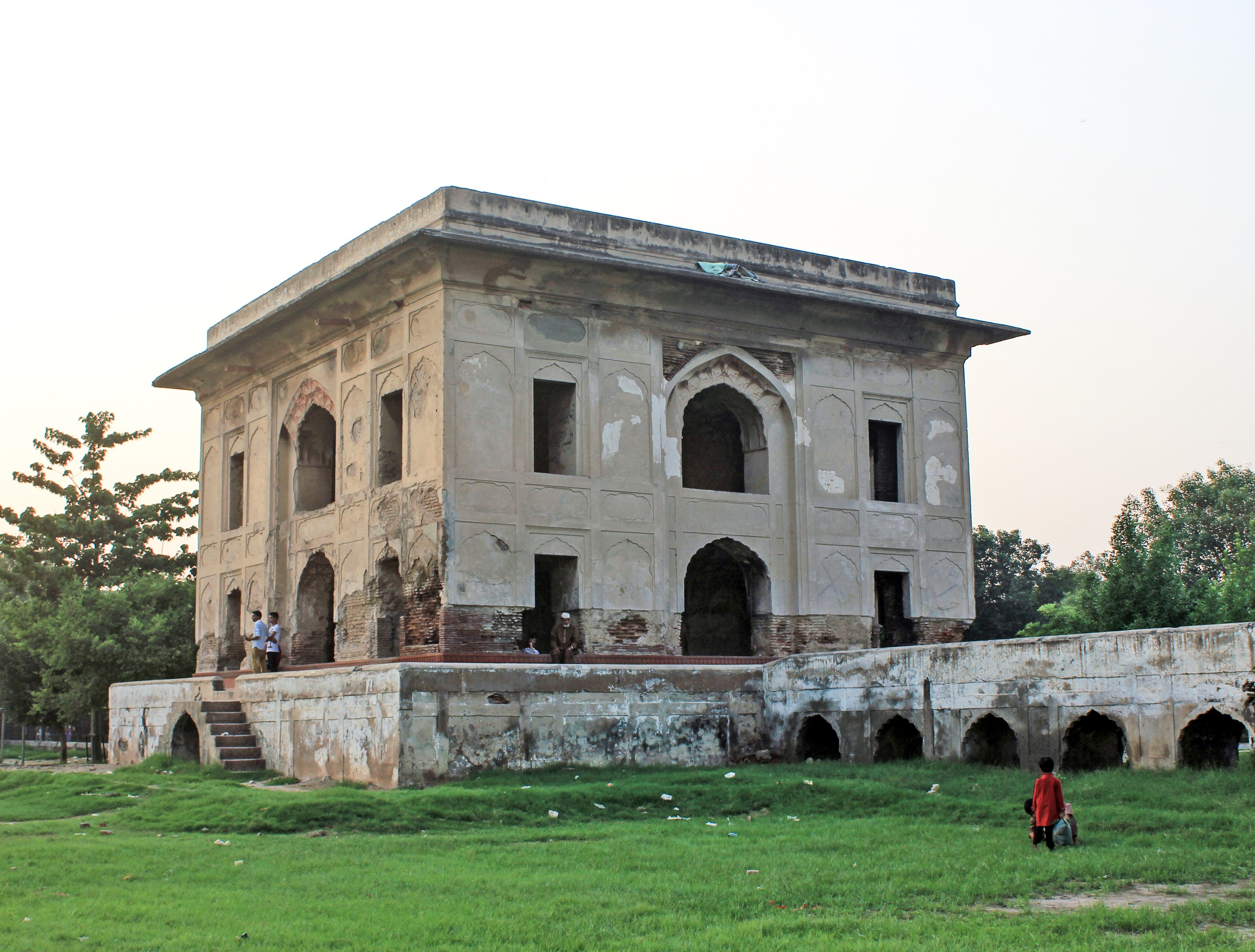 Tomb and Tank of Nadira Banu This is a photo of a monument in Pakistan identified as the PB-72